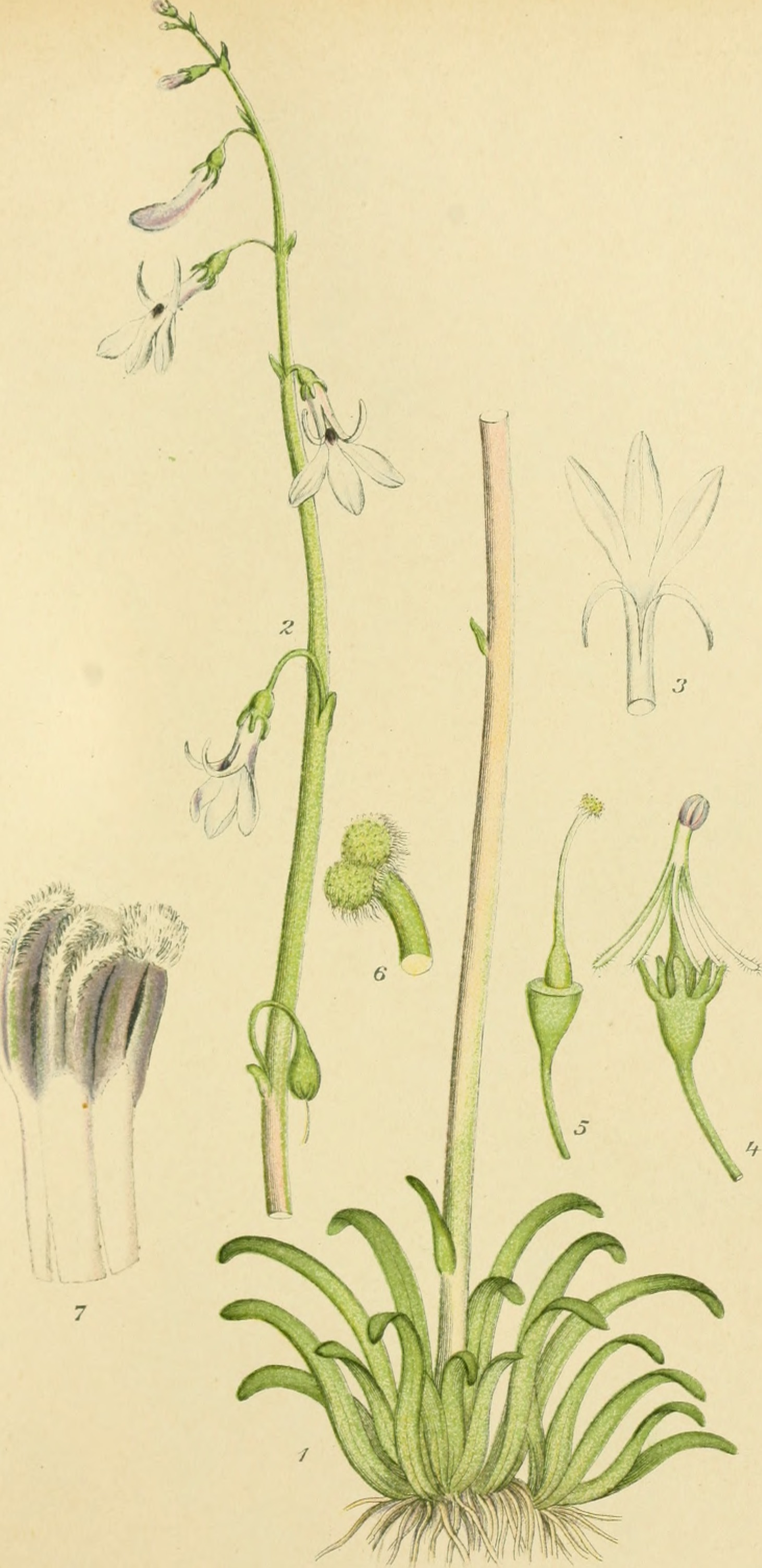 Title: Billeder af Nordens flora Year: 1901 (1900s) Authors: Lindman, C. A. M. (Carl Axel Magnus), 1856-1928 Subjects: Plants Publisher: København, G. E. C. Gad Text Appearing Before Image: ' Text Appearing After Image: LOBELIE, LOBELIA DORTMANNA.